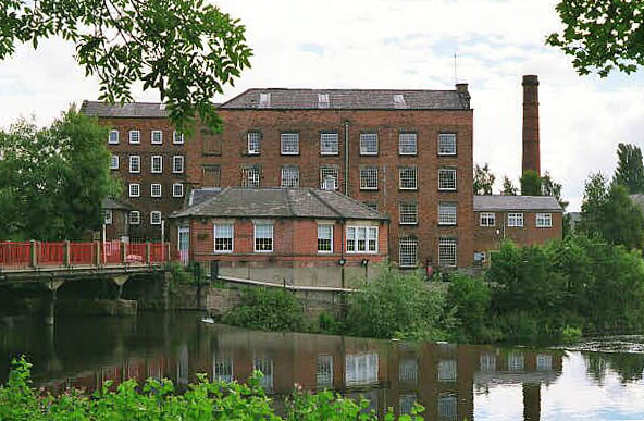 Darley Abbey - Boars Head Mills